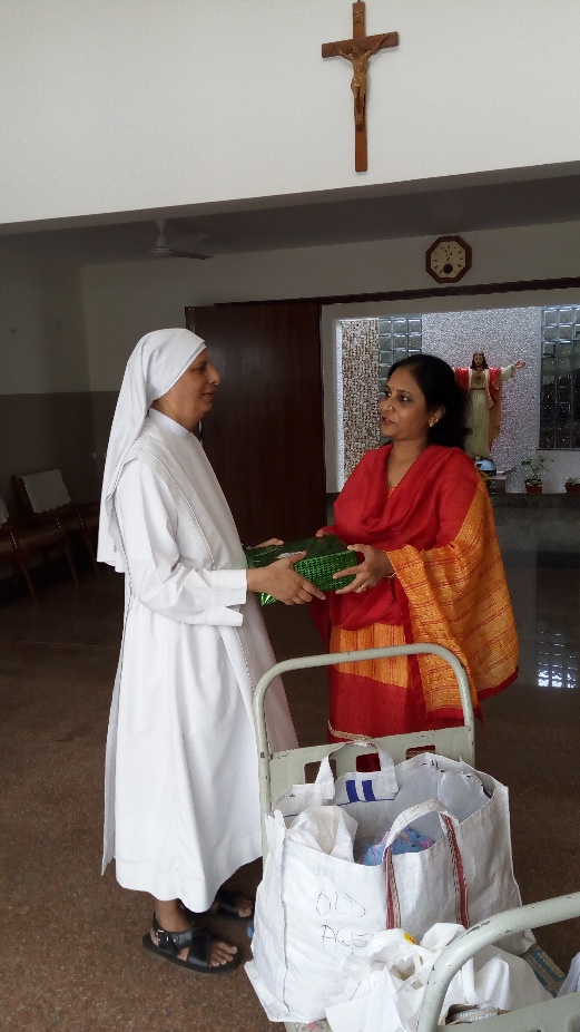 Little Sisters of the Poor